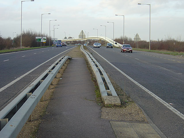 Pedestrian crossing This gap in the crash barriers on the busy A15 south of Glinton are necessary to allow bus passengers to cross to and from the adjacent bus stops. This road is still the direct way into Peterborough City Centre, although the other leg of the A15 which passes under the footbridge is now probably faster.